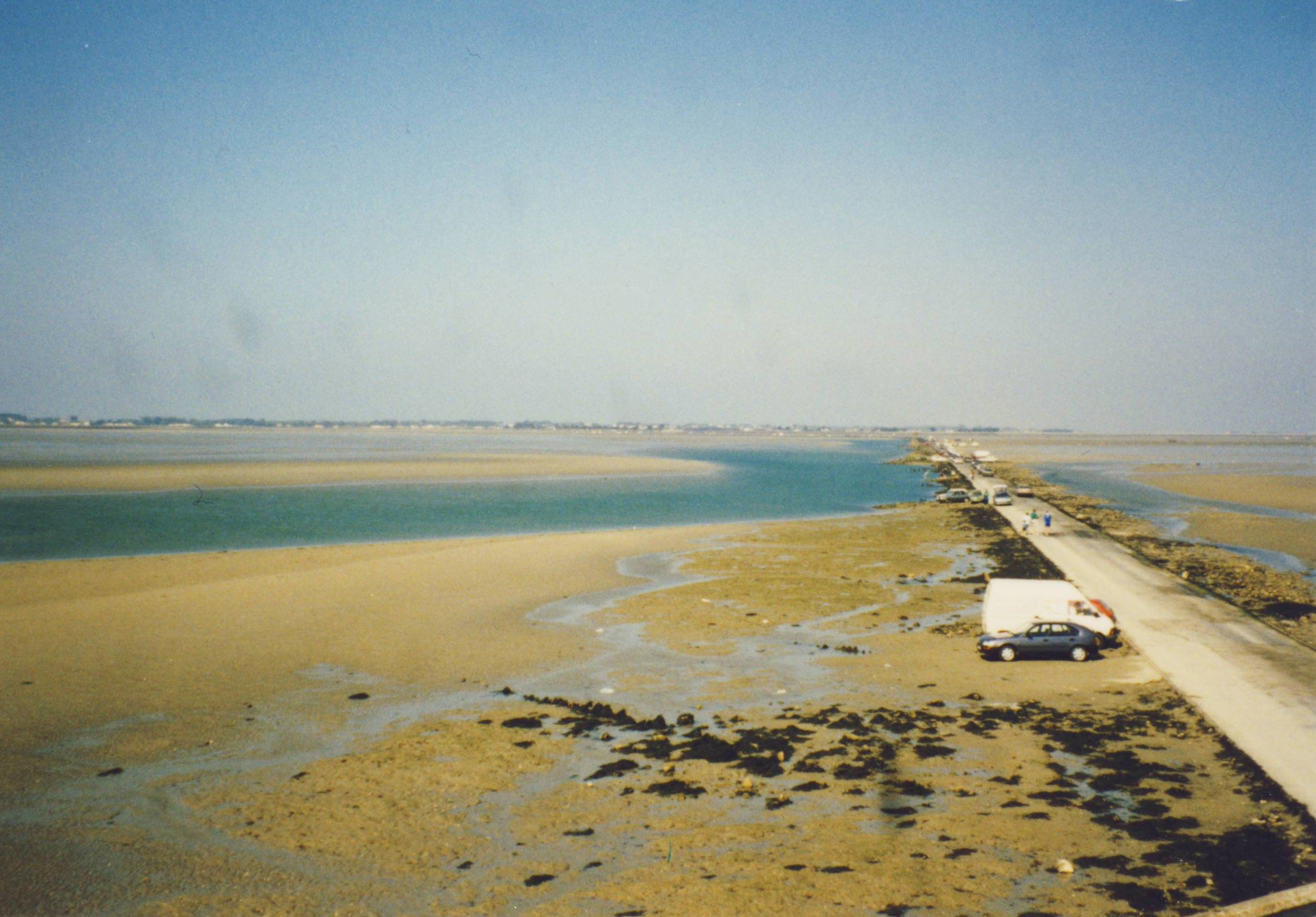 Passage du Gois, Way to Noirmoutier through the Ocean